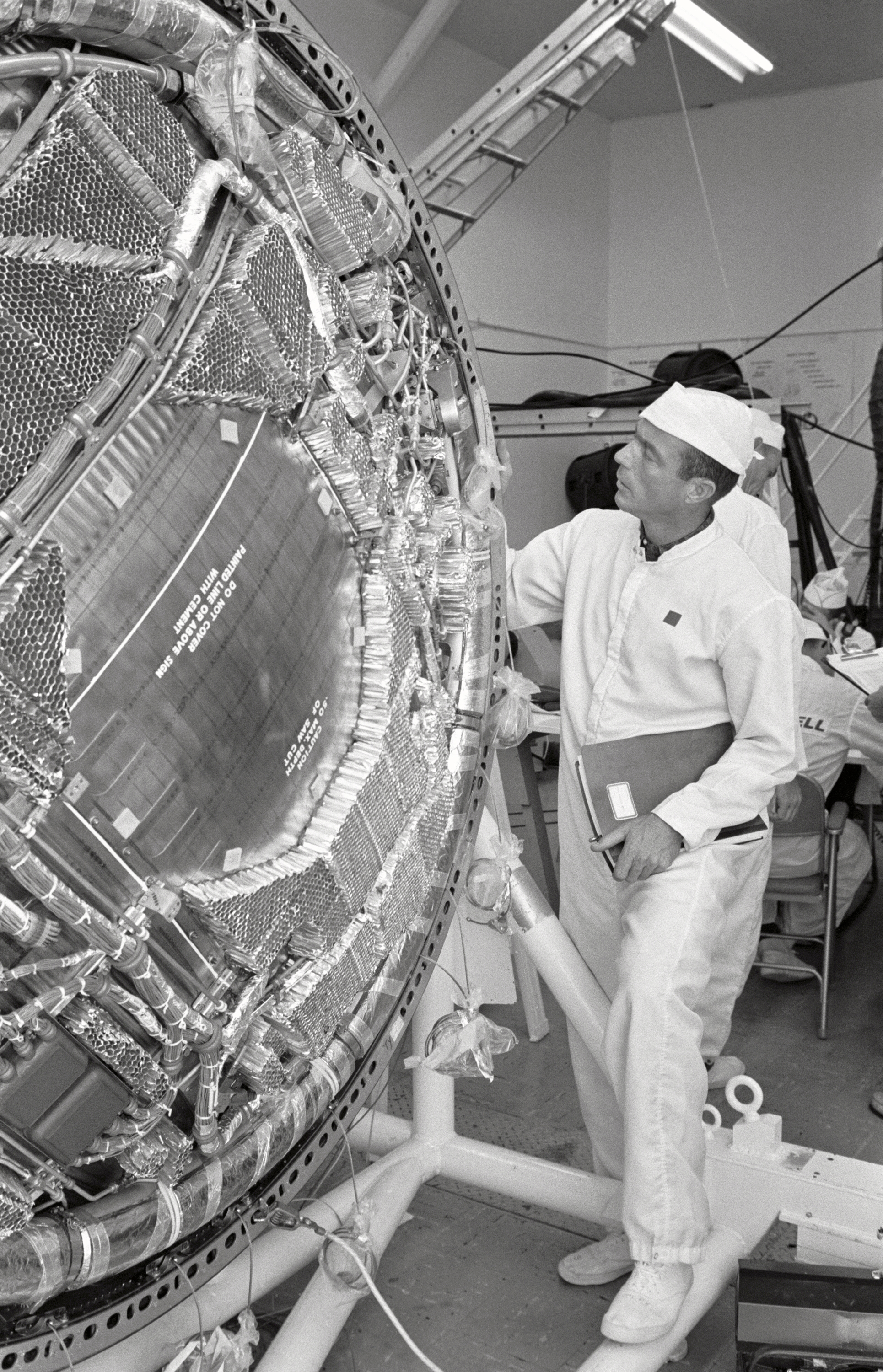 Inside Hangar S at the White Room Facility at Cape Canaveral, Florida, Mercury astronaut M. Scott Carpenter examines the honeycomb protective material on the main pressure bulkhead (heat shield) of his Mercury capsule nicknamed "Aurora 7".